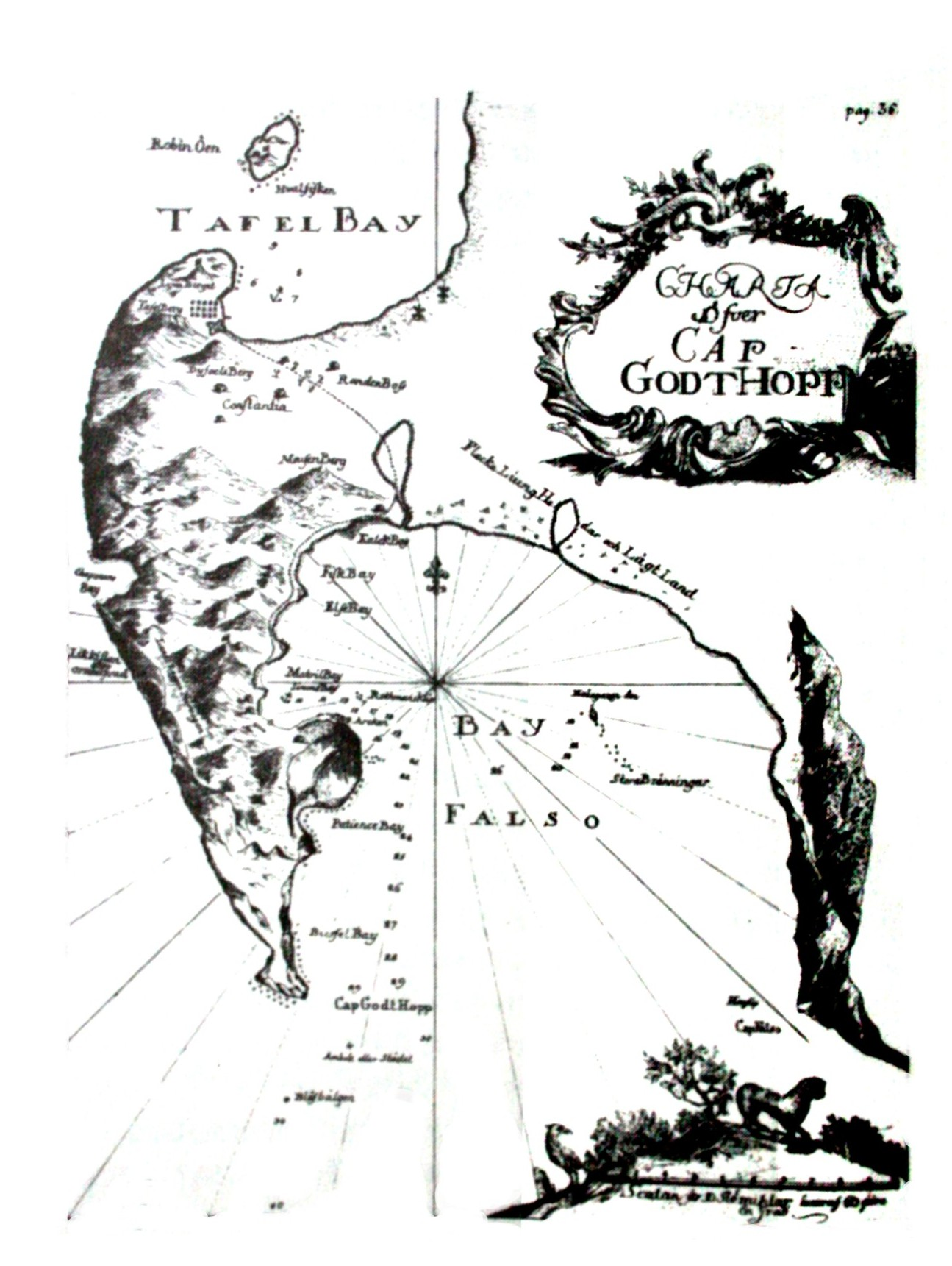 Map of Cape Peninsula